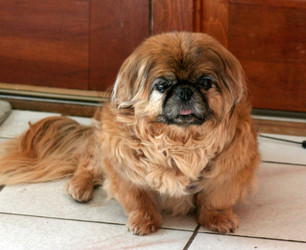 15y.o. Pekingese